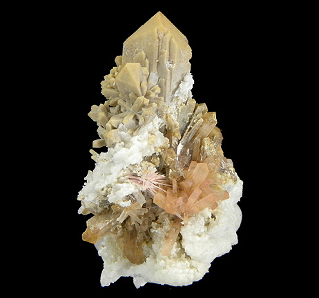 Eosphorite, Väyrynenite Locality: Chamachhu, Haramosh Mts., Skardu District, Baltistan, Northern Areas, Pakistan (Locality at ) Size: 4.1 x 2.7 x 2.6 cm. This is certainly one of the finest small miniatures from this very isolated yet exciting discovery. It is an awesome association specimen. It features a dramatic crystallized burst of tan to orange color Eosphorite crystals measuring up to 1.5 cm long which are associated with a few bright pink sprays of acicular Väyrynenite (approximately 6 mm across) which are associated with green, blue and black Tourmaline, and a small spherical somewhat rosette-shaped aggregate of an unknown brown mineral (possibly a phosphate?) on white Albite matrix. The piece is valued at $1400 retail. A superb and aesthetic miniature size specimen featuring a rare association of species. Ex. Brian Kosnar Collection.